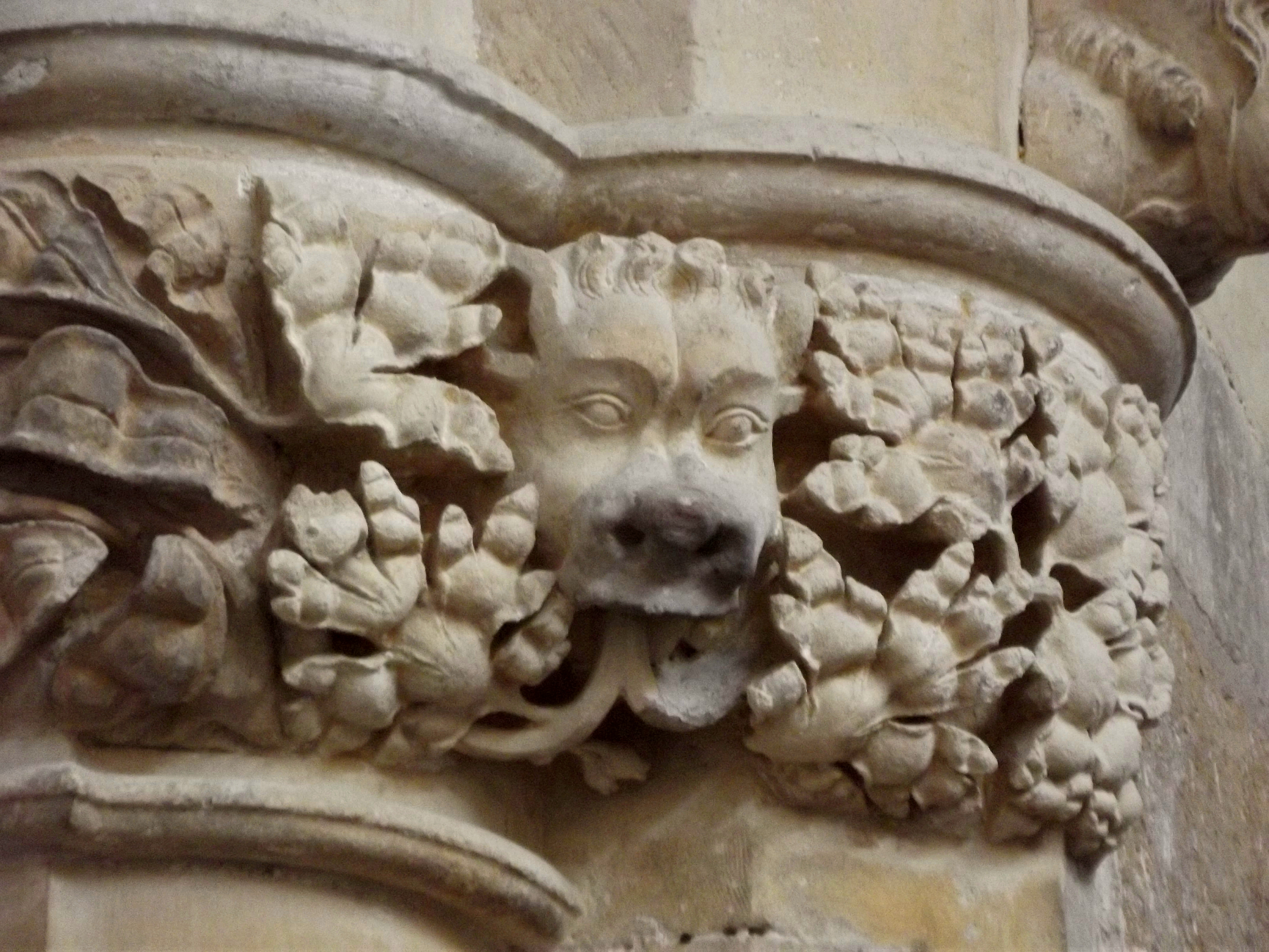 Romanesque capital at St Peter's Church, Barton-upon-Humber, Lincolnshire.